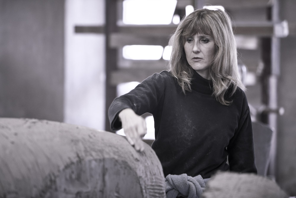 Alexandra Koláčková